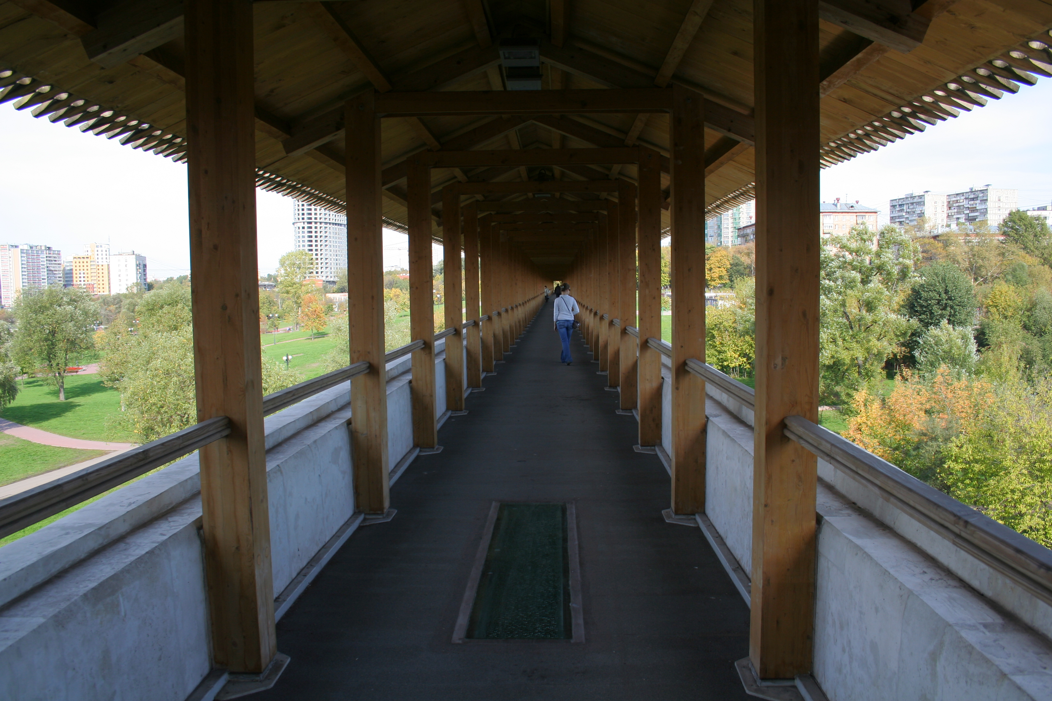 The Rostokino Aqueduct in Moscow, view inside